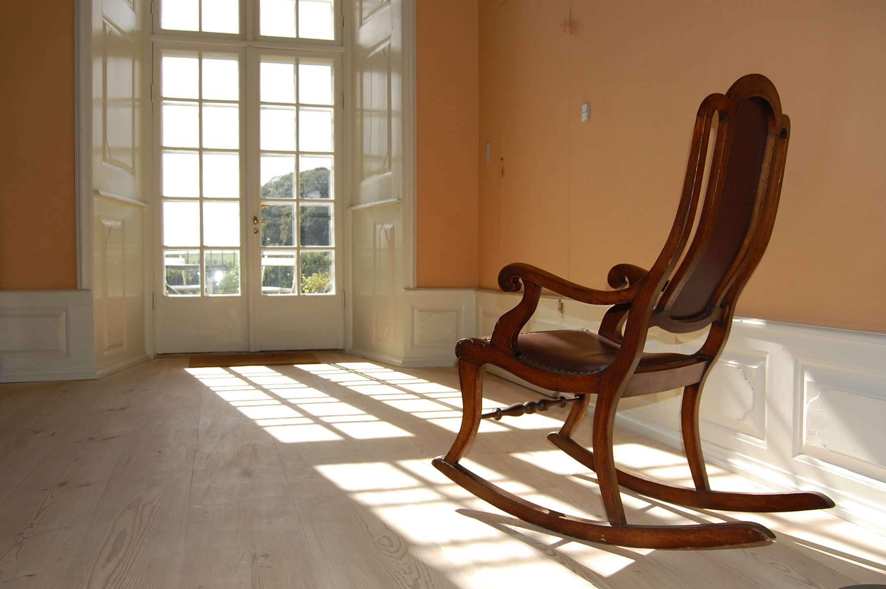 Plenty of time for contemplation.